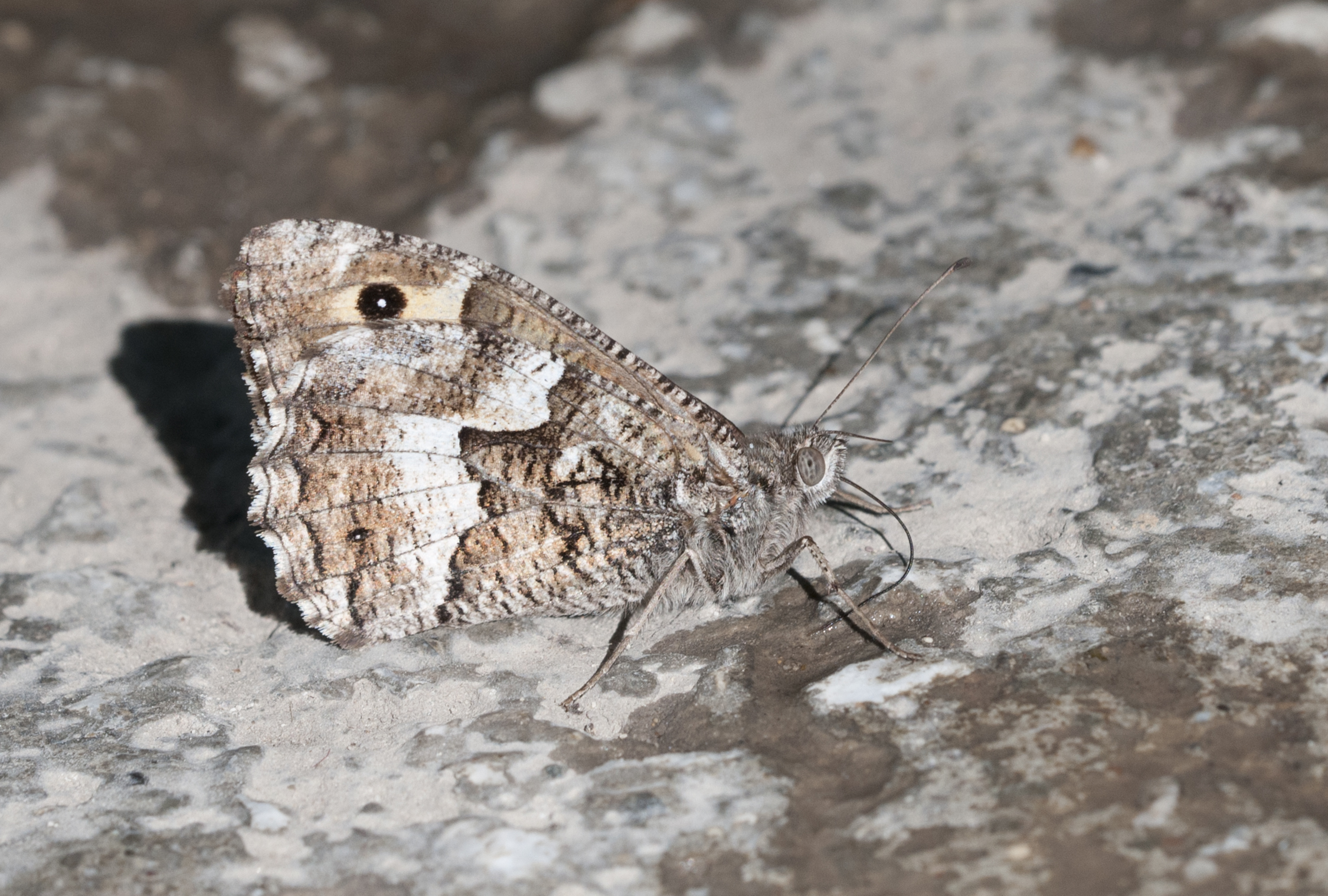 A specimen of Southern Grayling (Hipparchia aristaeus). Ermenek, Karaman - Turkey.